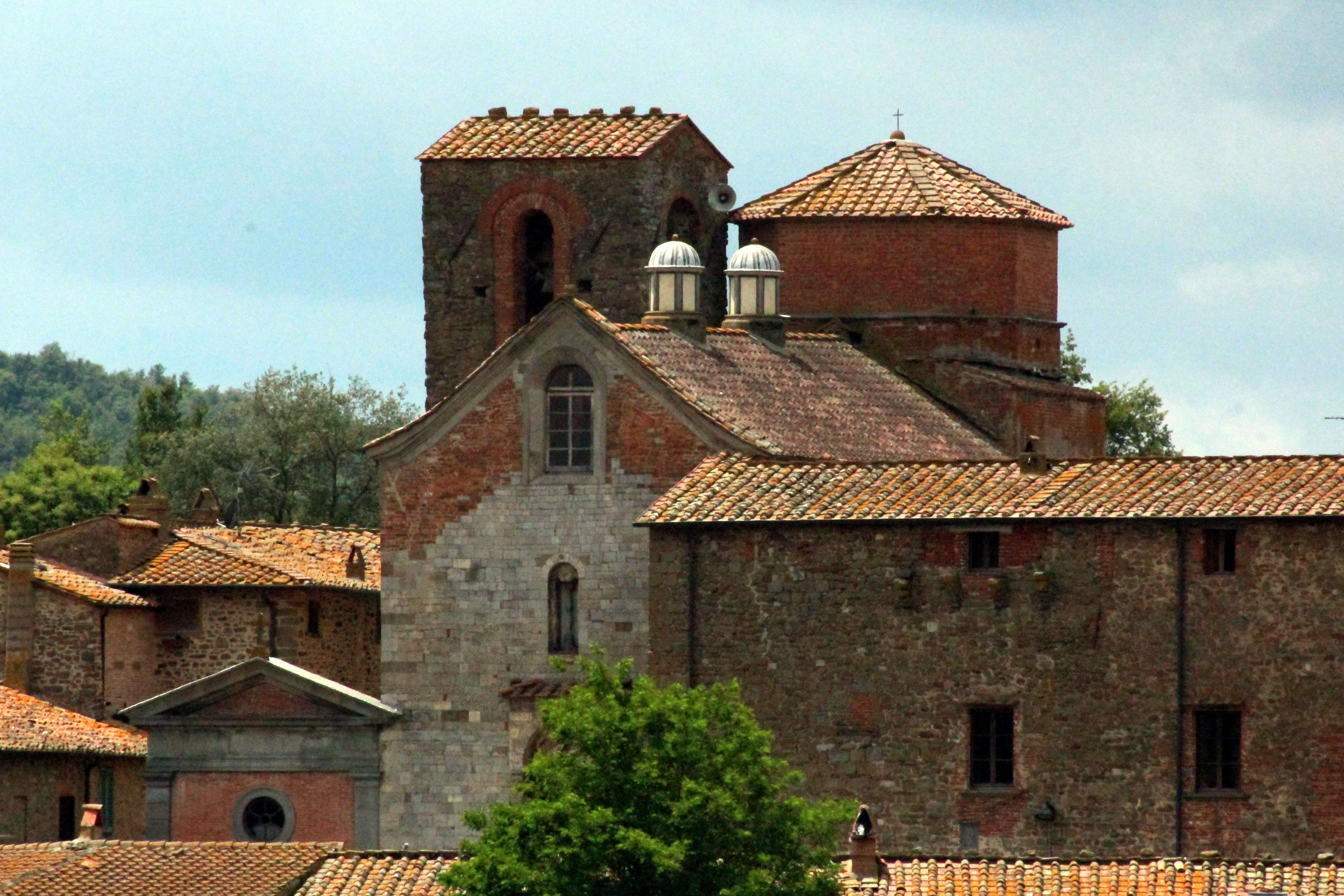 Badia di San Pietro a Ruoti, Badia a Ruoti, hamlet of Bucine, Province of Tuscany, Italy